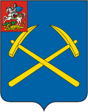 Podolsk (Moscow oblast), coat of arms